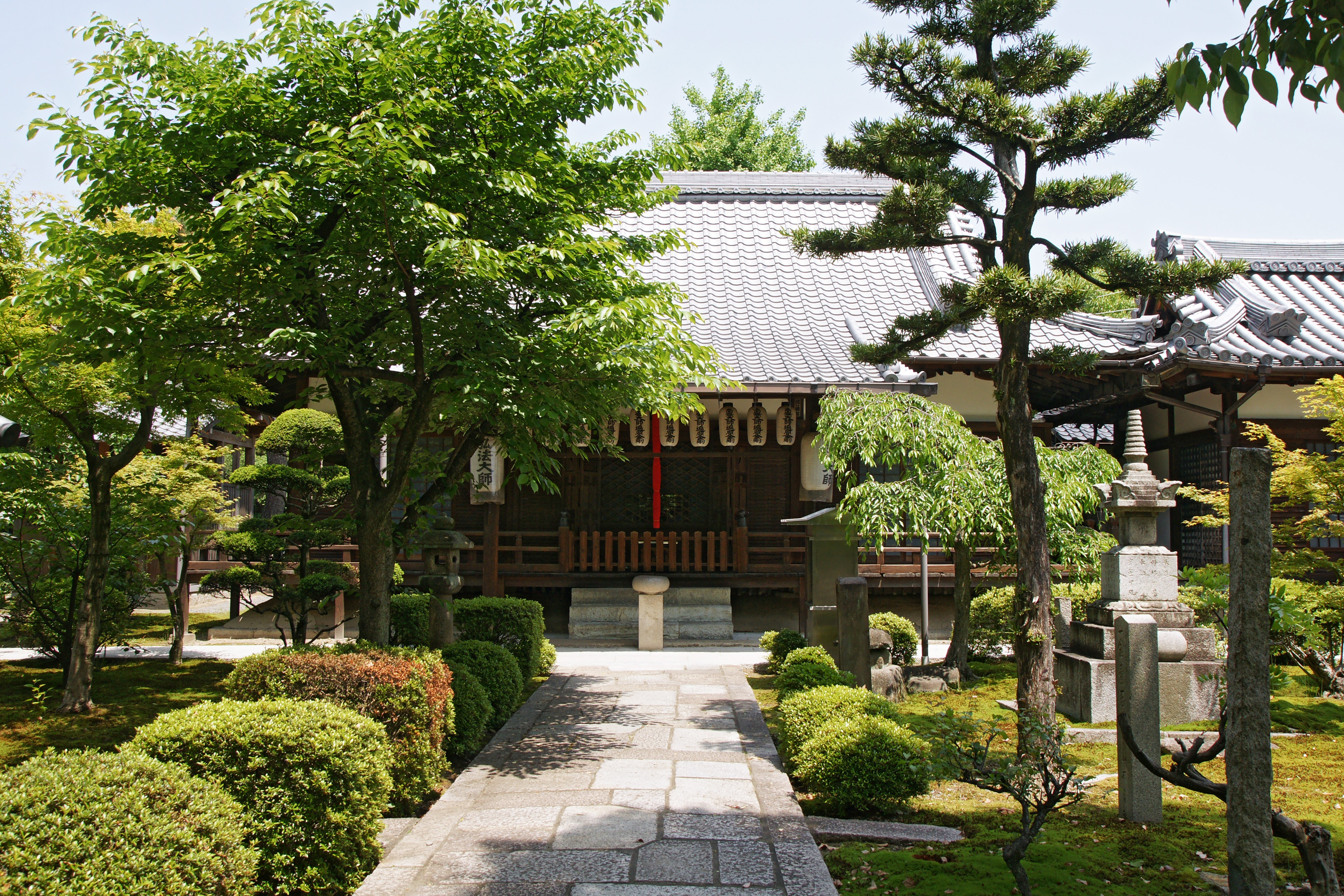 Anrakujuin in Kyoto, Kyoto prefecture, Japan.